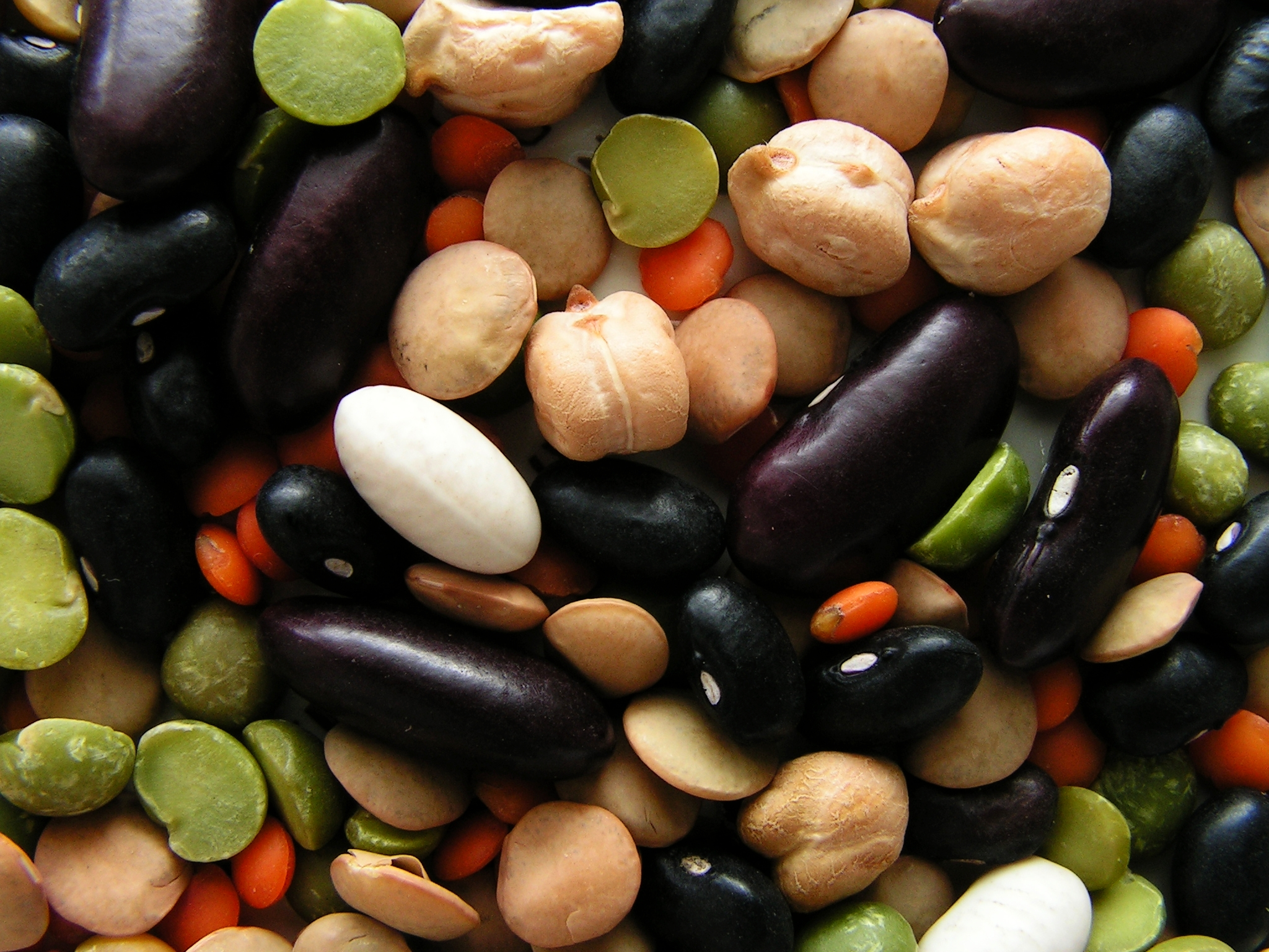 The mixted seeds of Fabaceae: Cicer arietinum, Lens culinaris (orange and brown), Phaseolus vulgaris (black, violet and white), Pisum sativum